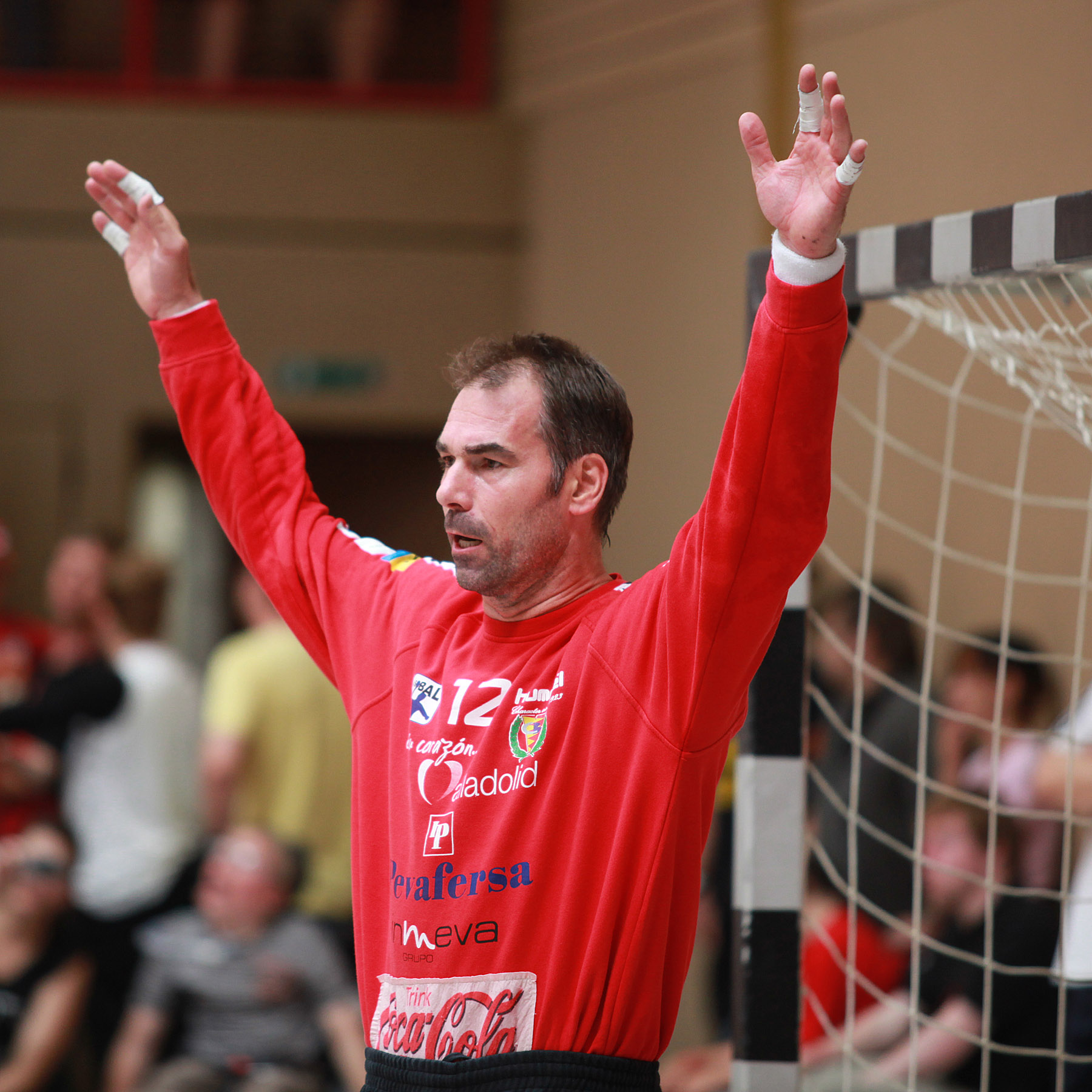 Tomas Svensson, the Swedish handball goal keeper from BM Valladolid, during the Schlecker Cup 2009 in Ehingen (Germany)